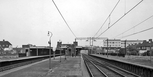 Becontree Station. View eastwards, towards Upminster, Southend-on-Sea and Shoeburyness. Tracks on right are ex-LT&S Fenchurch Street - Upminster - Southend - Shoeburyness line (the wires are up, but electric services did not begin until six months later). On the left are the LT District Line tracks to Upminster.